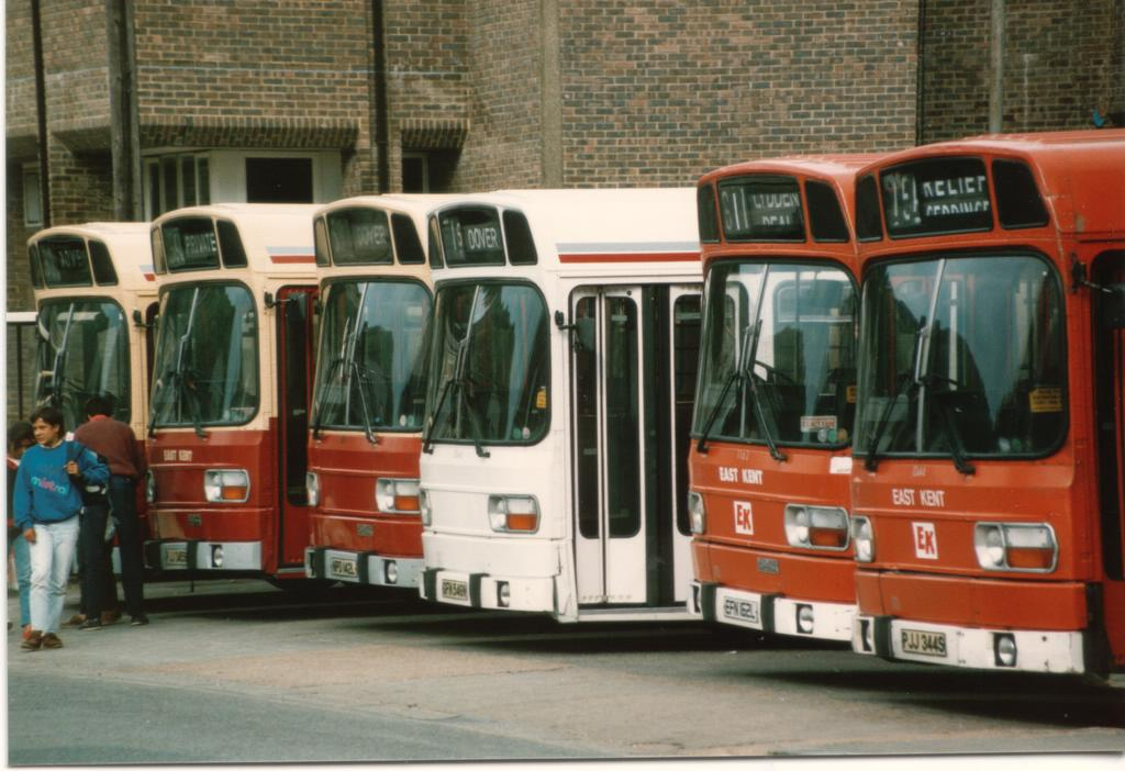 Two of them have the delicious looking old East Kent Road Car livery. The rest havnt!